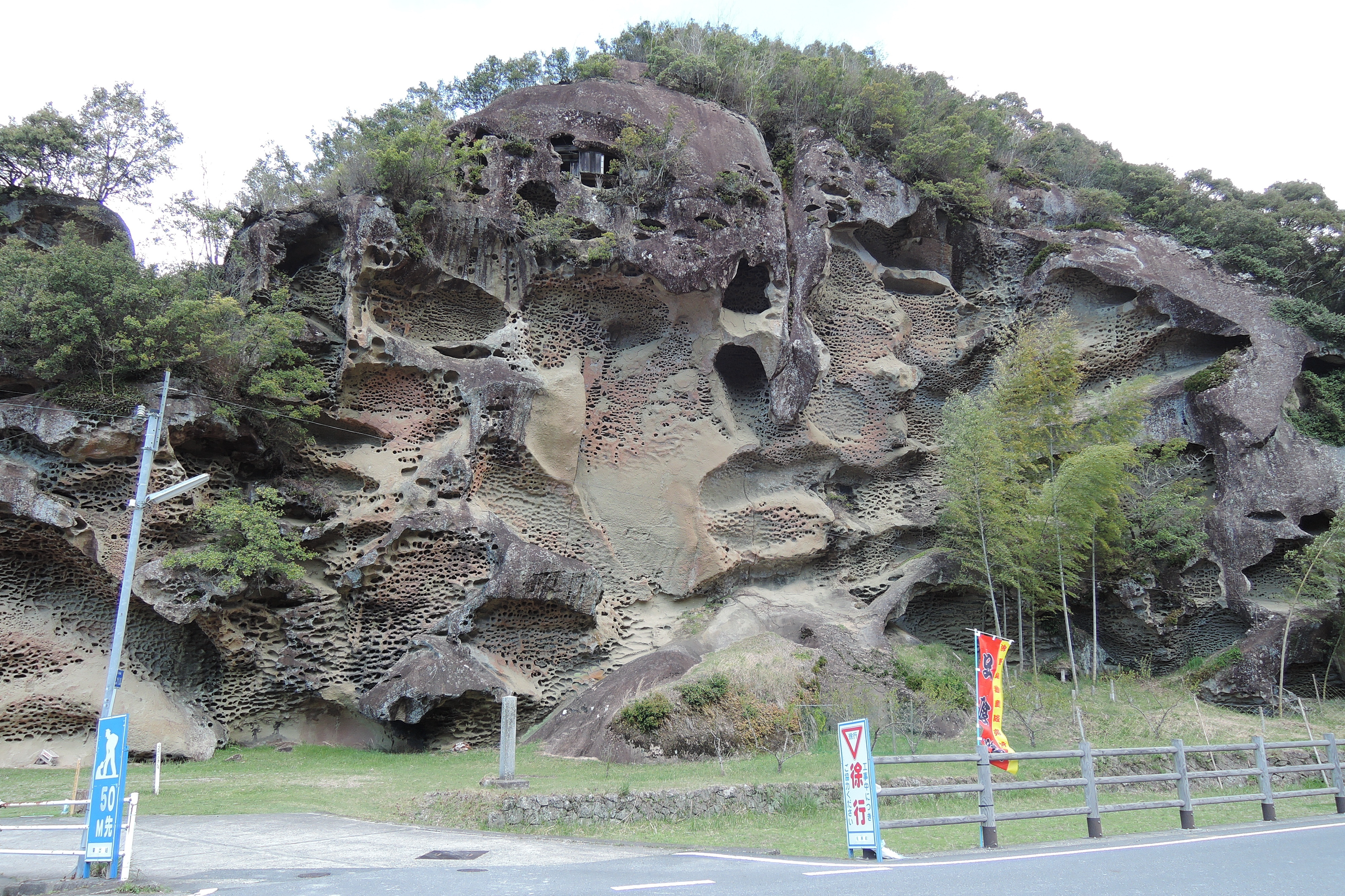 Mushikui-rock in Takaike (Natural monuments in Japan),Wakayama prefecture,Japan